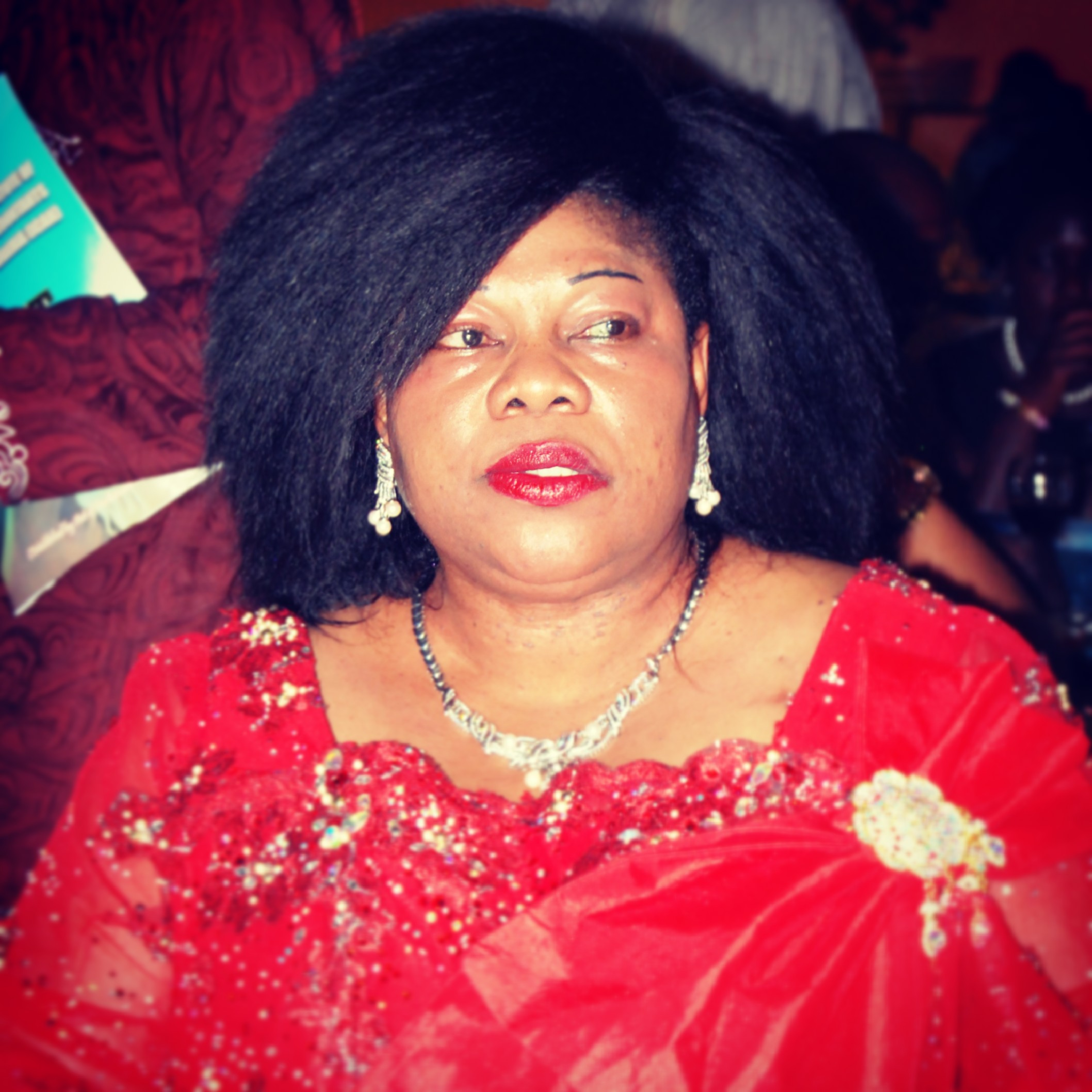 Picture image of Dr Mrs Ngozi Olejeme at the ICAN Awards, Abuja Nigeria.